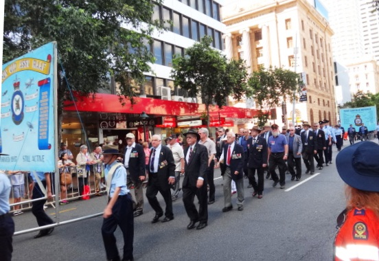 QUS & 23 Sqdn Anzac Day March, Brisbane, 2013